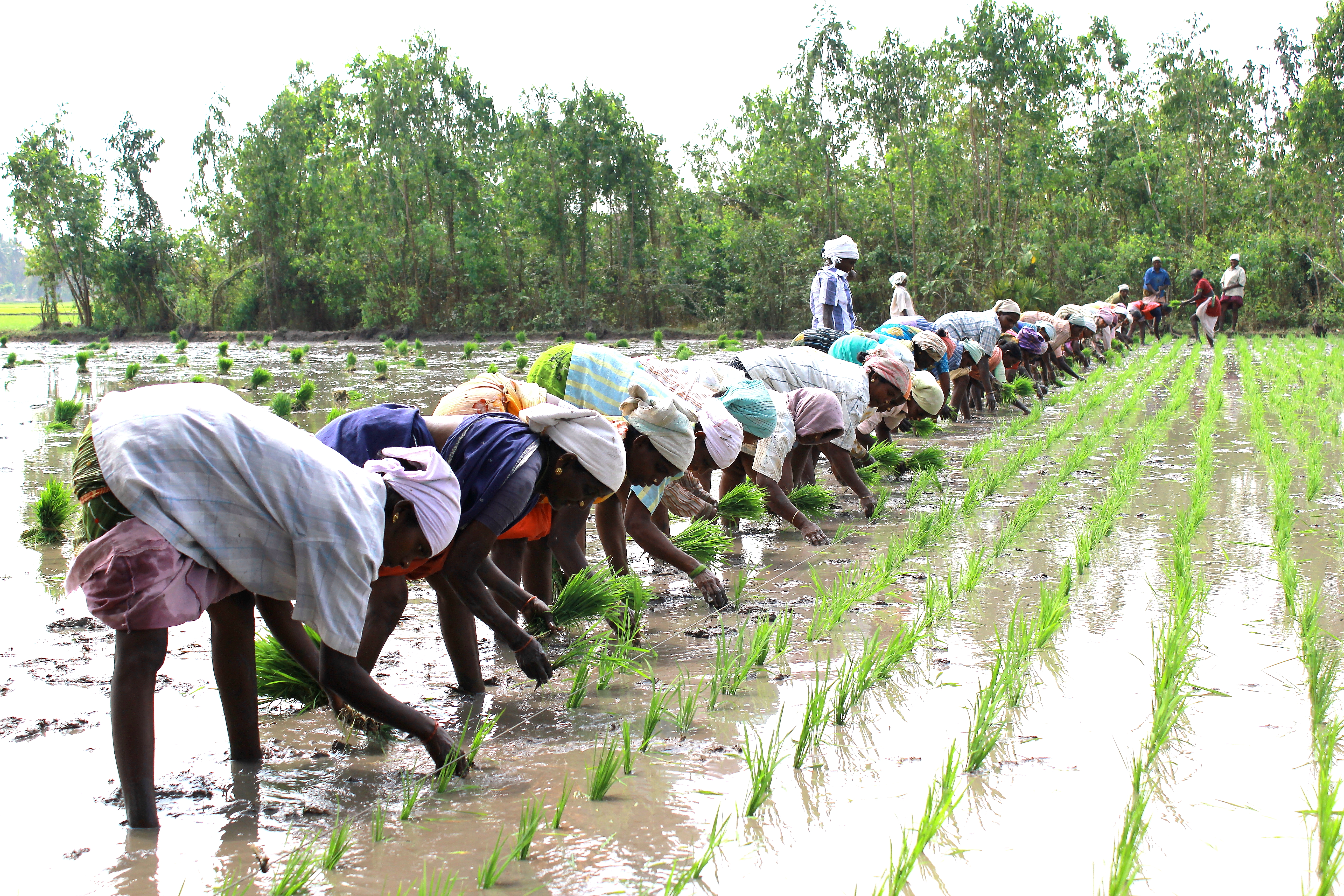 Naathu nadal at Pondicherry